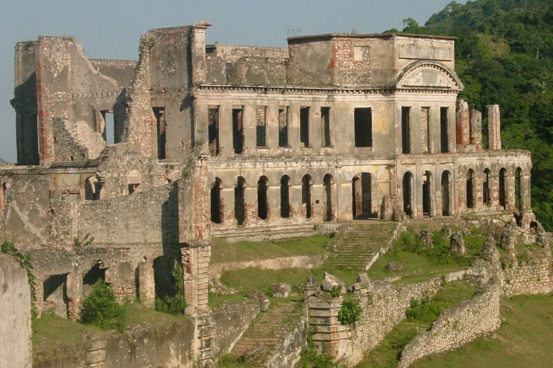 The ruins of Sans Souci Palace in Milot, Haiti